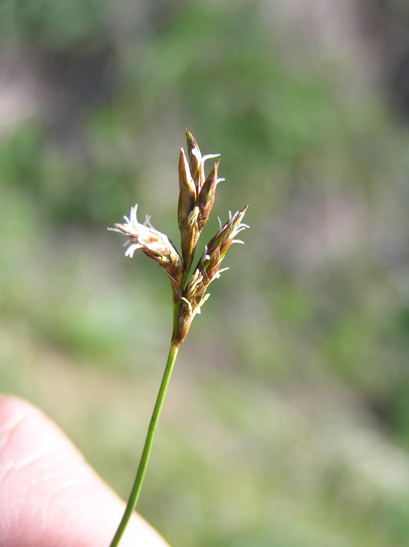 Carex praecox, Sedlec near Mikulov, Southern Moravia, Czech Republic